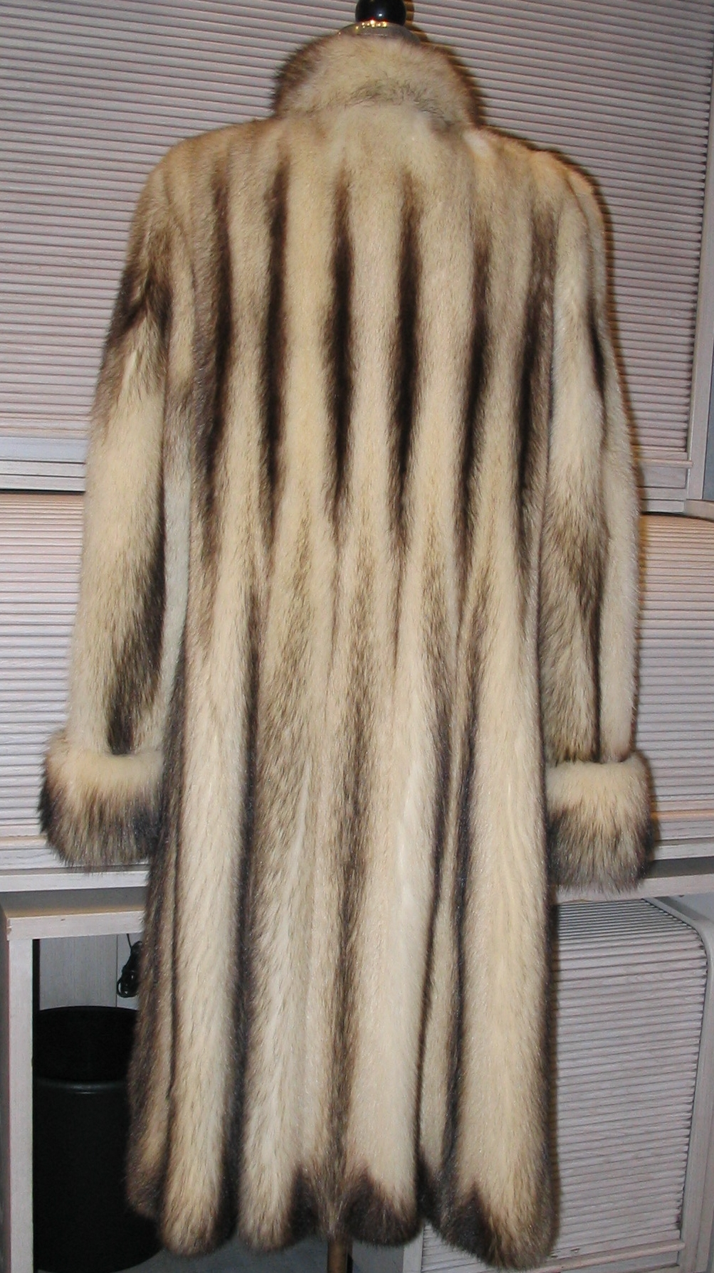 Fitch fur coat (breeded fitches)